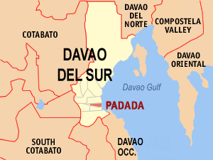 Map of the Davao del Sur showing the location of Padada